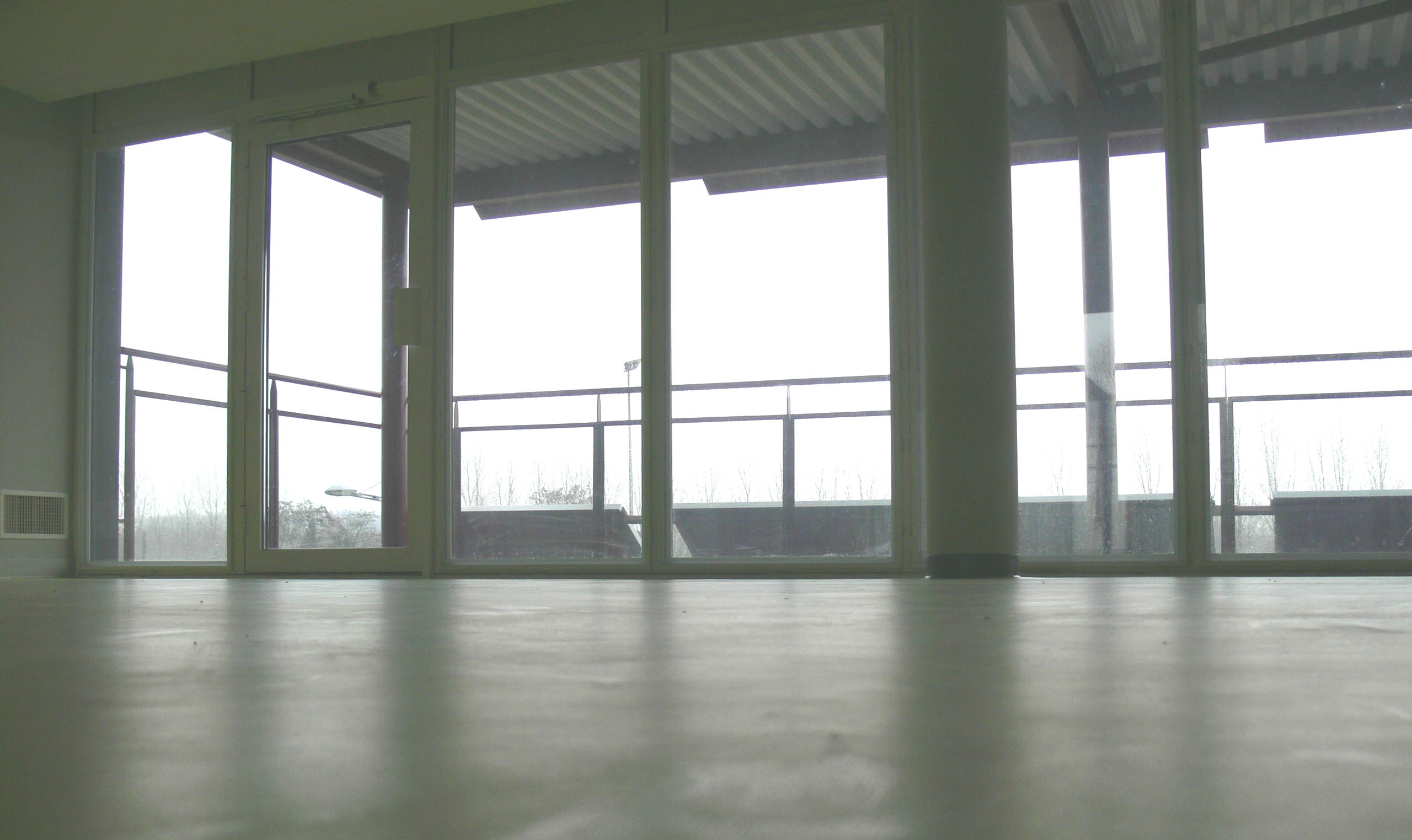 Special windows in a Retirement home (for energy efficiency), in Trith-Saint-Léger, in north of France, (dept : 59) in Nord-Pas-de-Calais region, made with ecological principles.